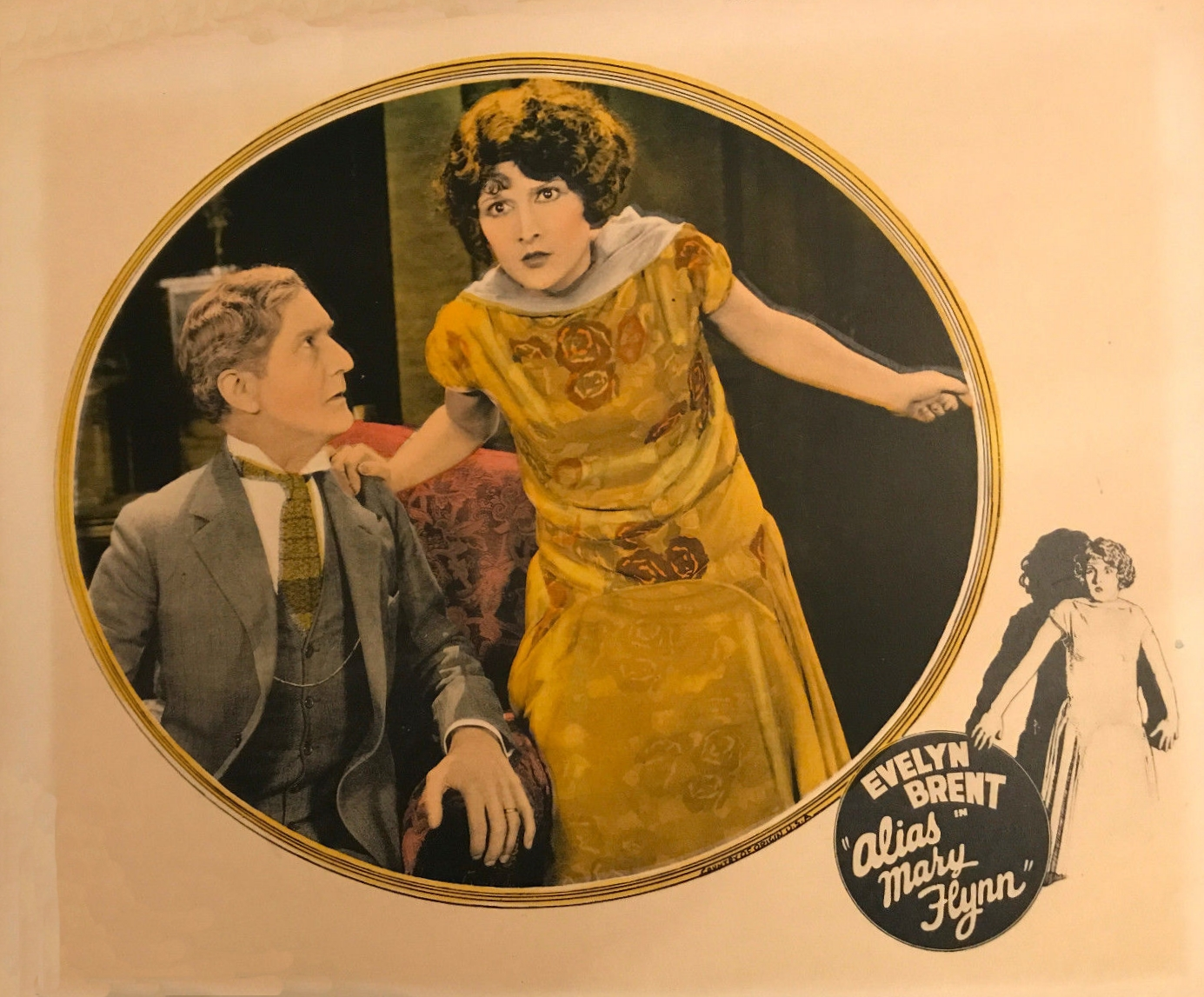 This is a lobby card for the 1925 American silent drama film Alias Mary Flynn.